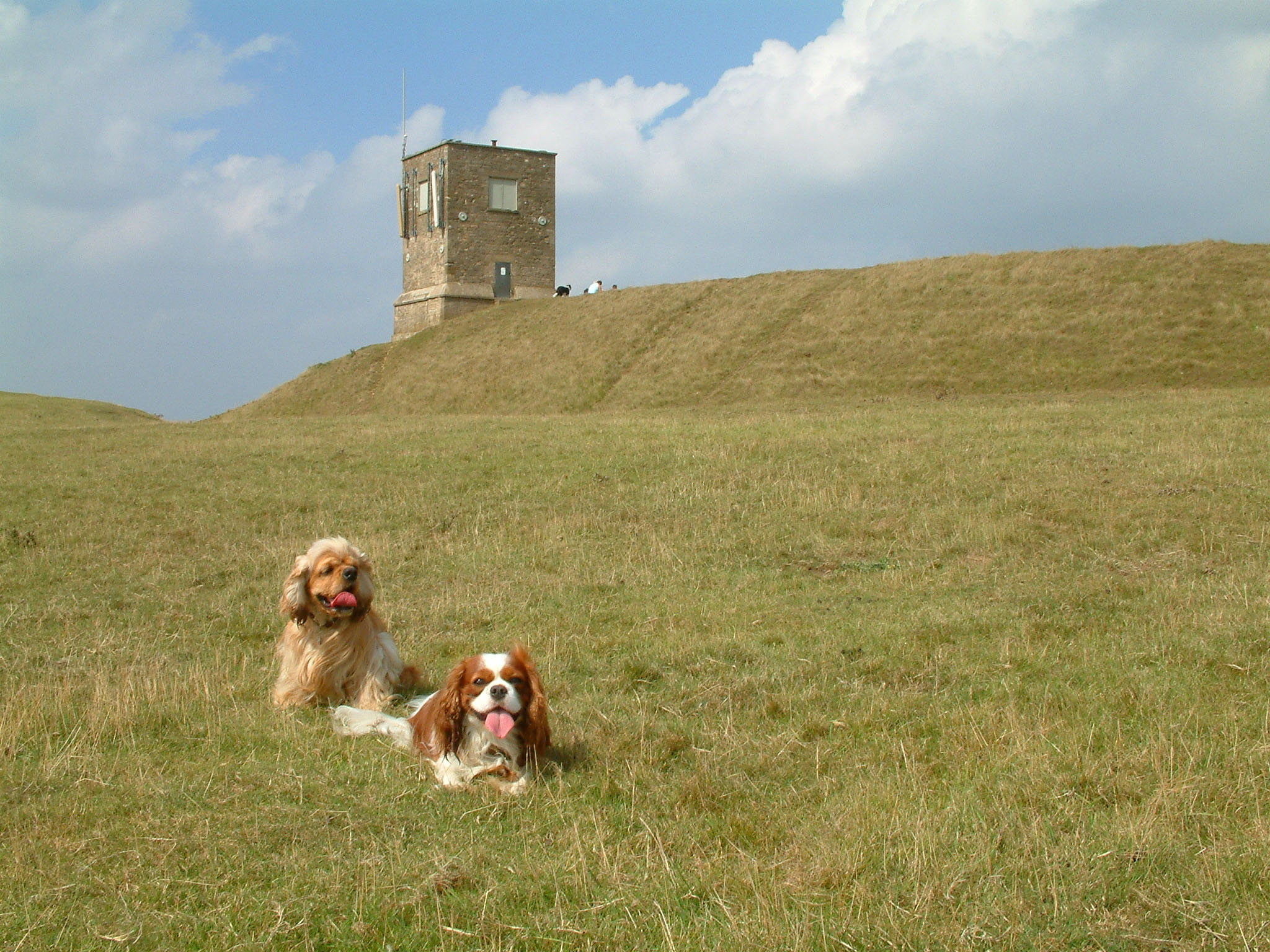 Parsons' Folly and earthworks of Iron Age fort on Bredon Hill, Worcestershire. Photograph by Stephen Dawson, 24 August 2003.